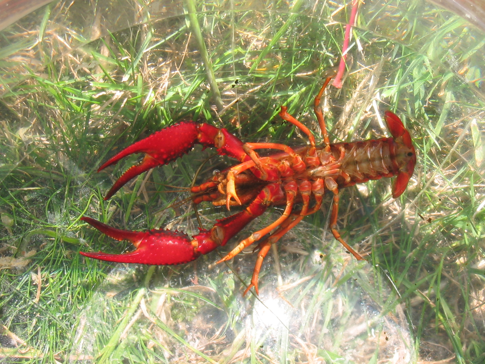 Procambarus clarkii taken near a lake in Gironde, France.